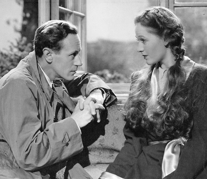 Promotional still for the film Spitfire, released in 1943 in the U.S.; re-edited from the 1942 British film The First of the Few.